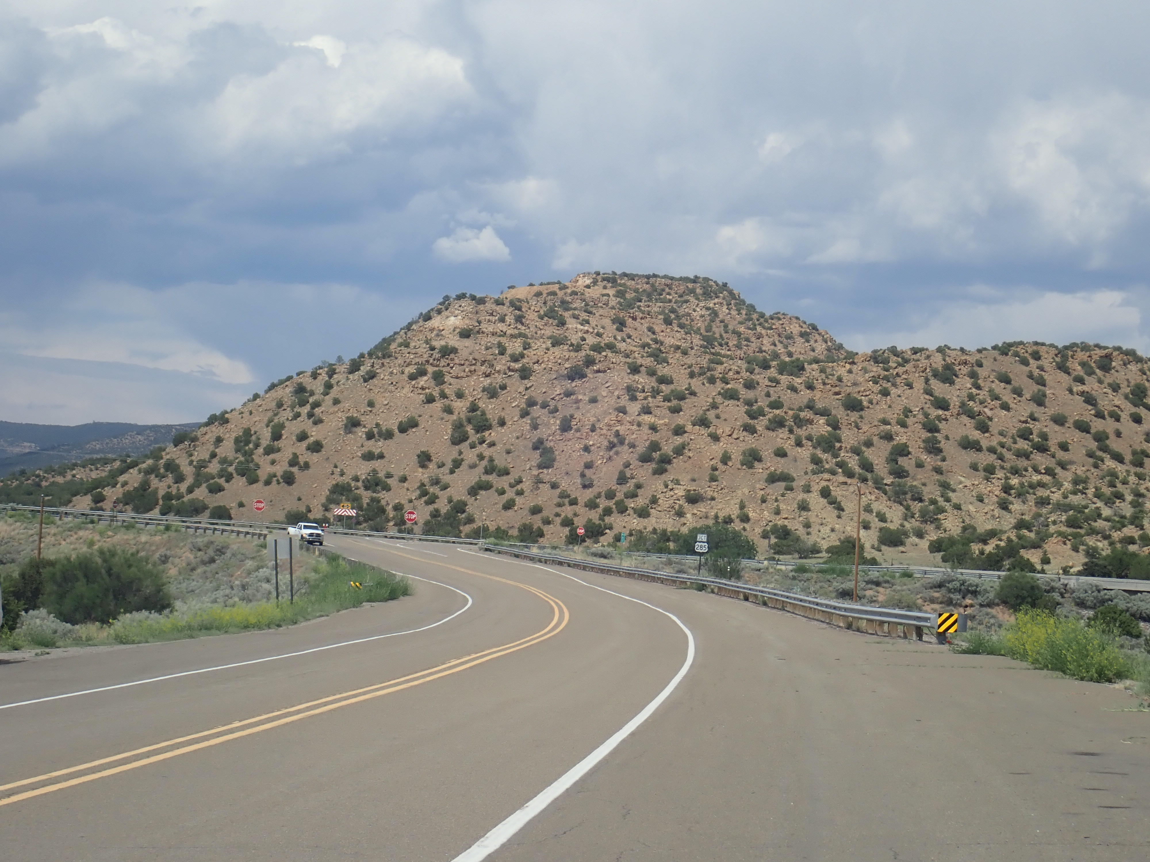 This image shows Cerro Colorado, a hill near Lamy, New Mexico, USA, that is underlain by the Eocene Diamond Tail Formation.